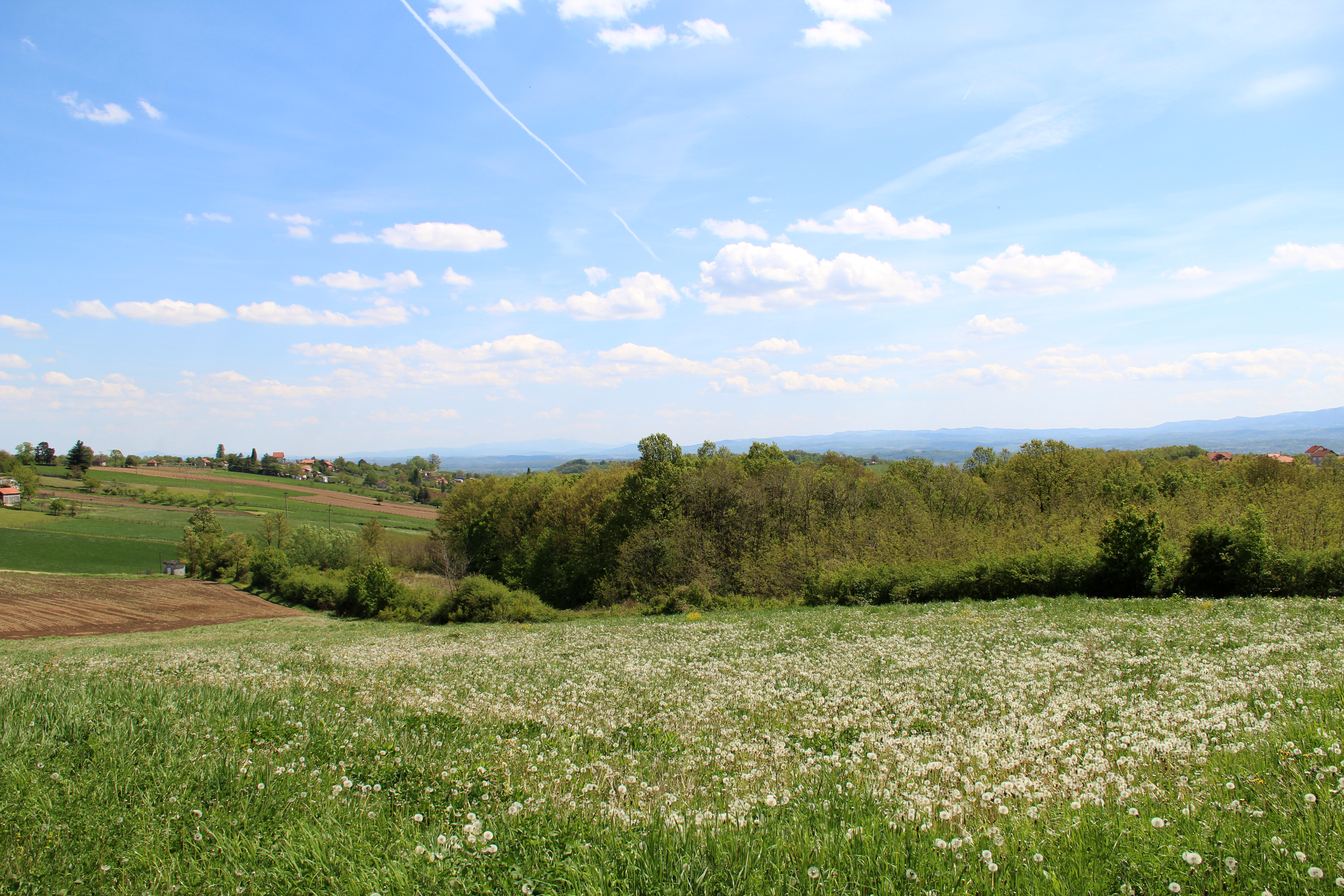 Zabrdica village - Municipality of Valjevo - Western Serbia - Panorama 5